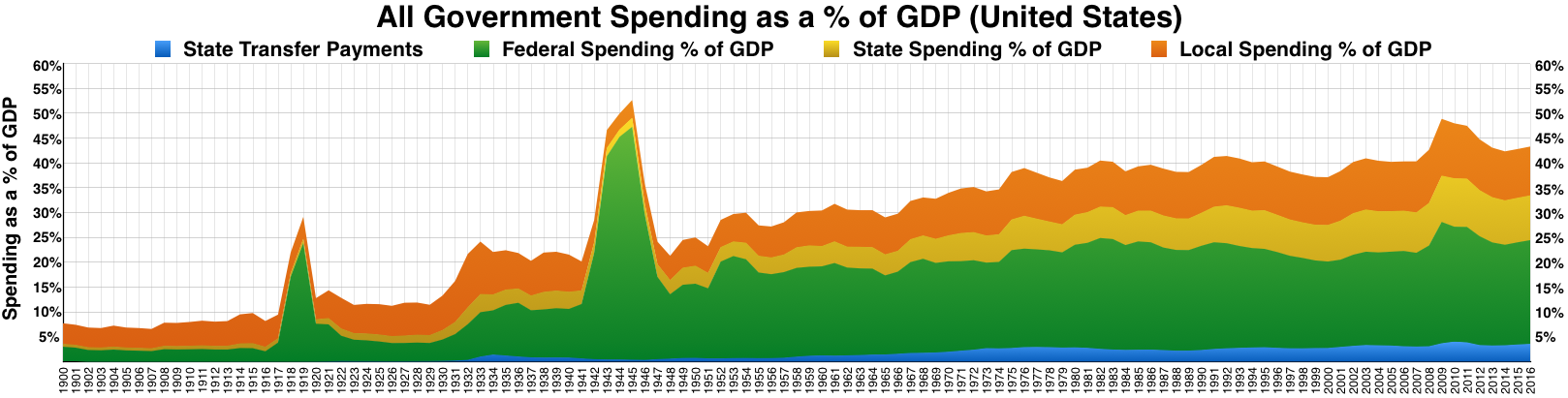 Federal, State, and local total spending history chart